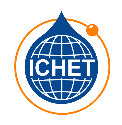 Logo of the International Centre for Hydrogen Energy Technologies